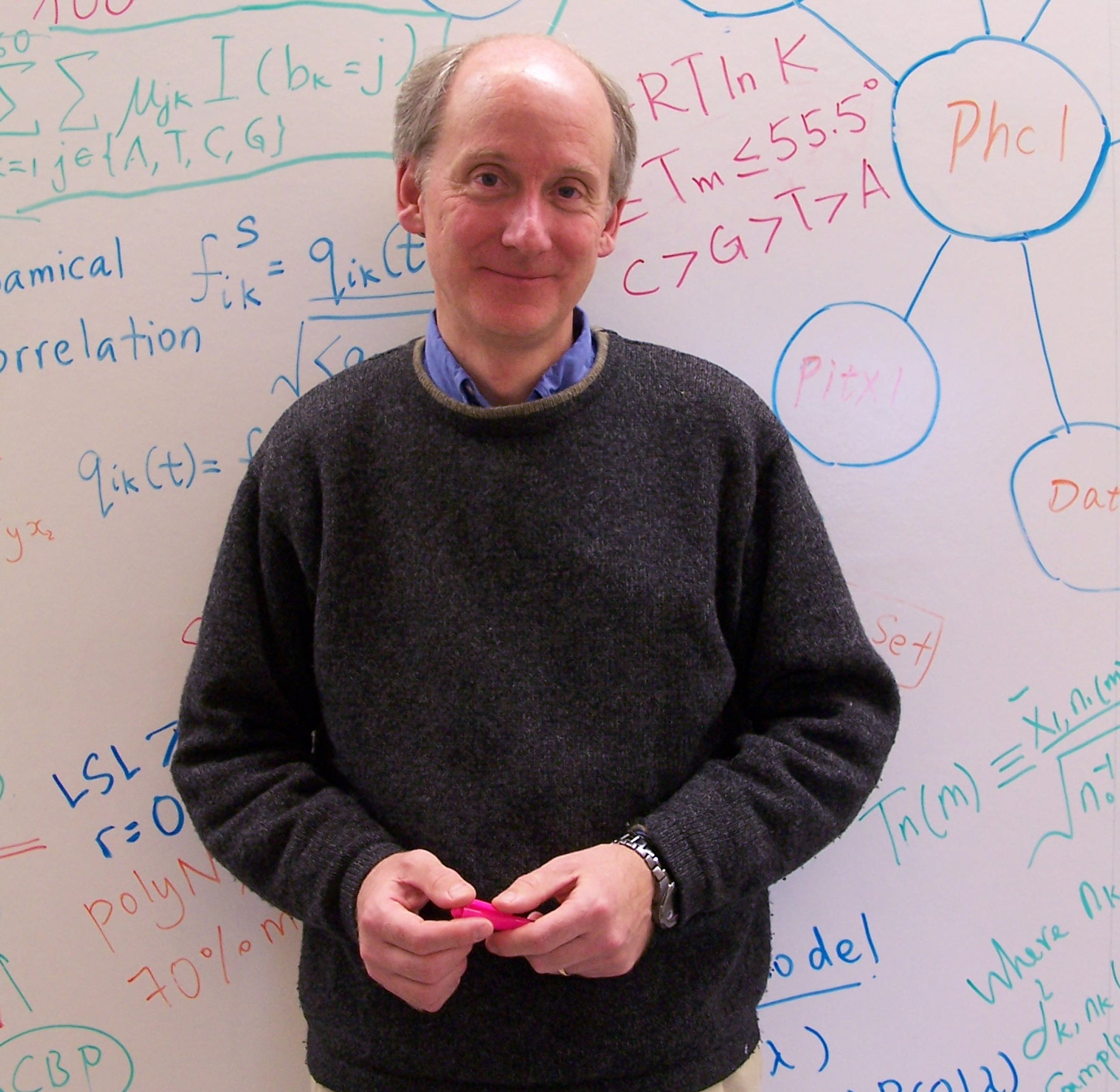 Photo of a cell biologist James Alexander Thomson.